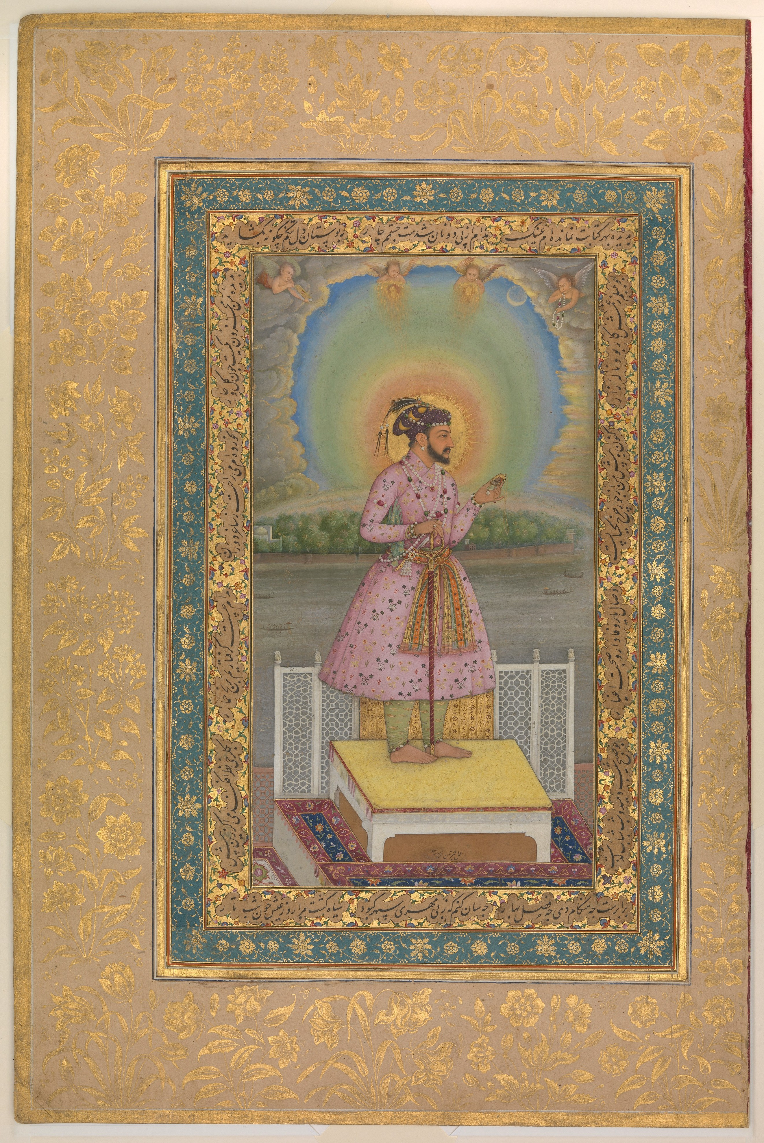 Shah Jahan on a Terrace Holding a Pendant Set with His Portrait, dated 1627/8; Mughal Inscribed by Chitarman, dated 1627/8 India Ink, opaque watercolor, and gold on paper H. 15 3/8 in. (38.9 cm), W. 10 1/8 in. (25.6 cm) Purchase, Rogers Fund and The Kevorkian Foundation Gift, 1955 (55.121.10.24)